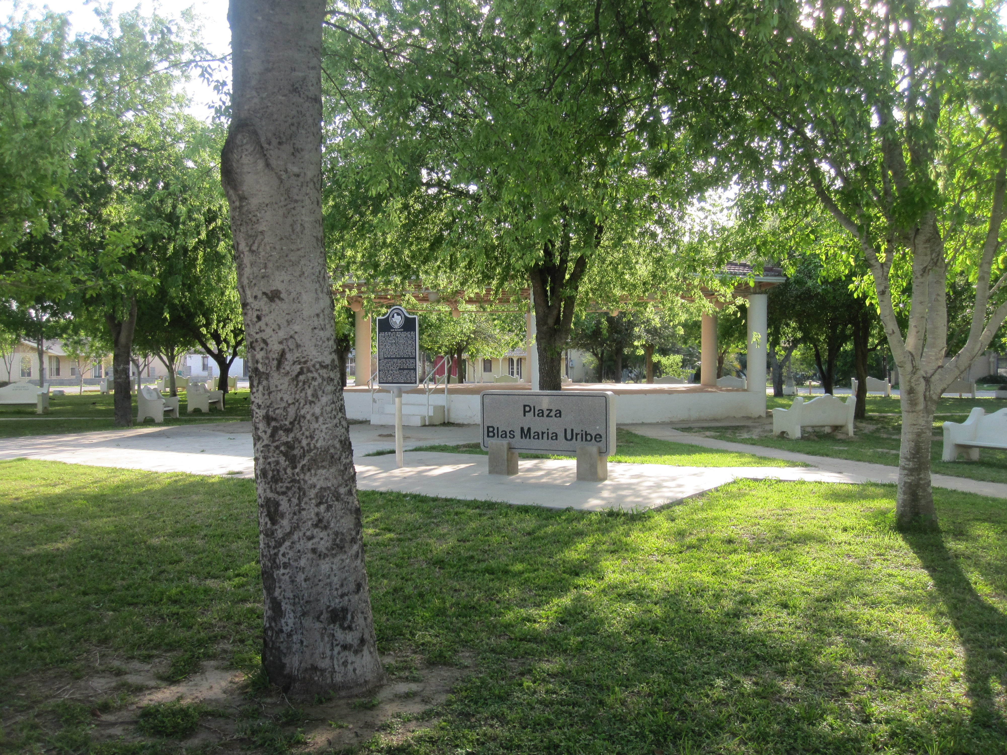 I took picture with Canon camera.